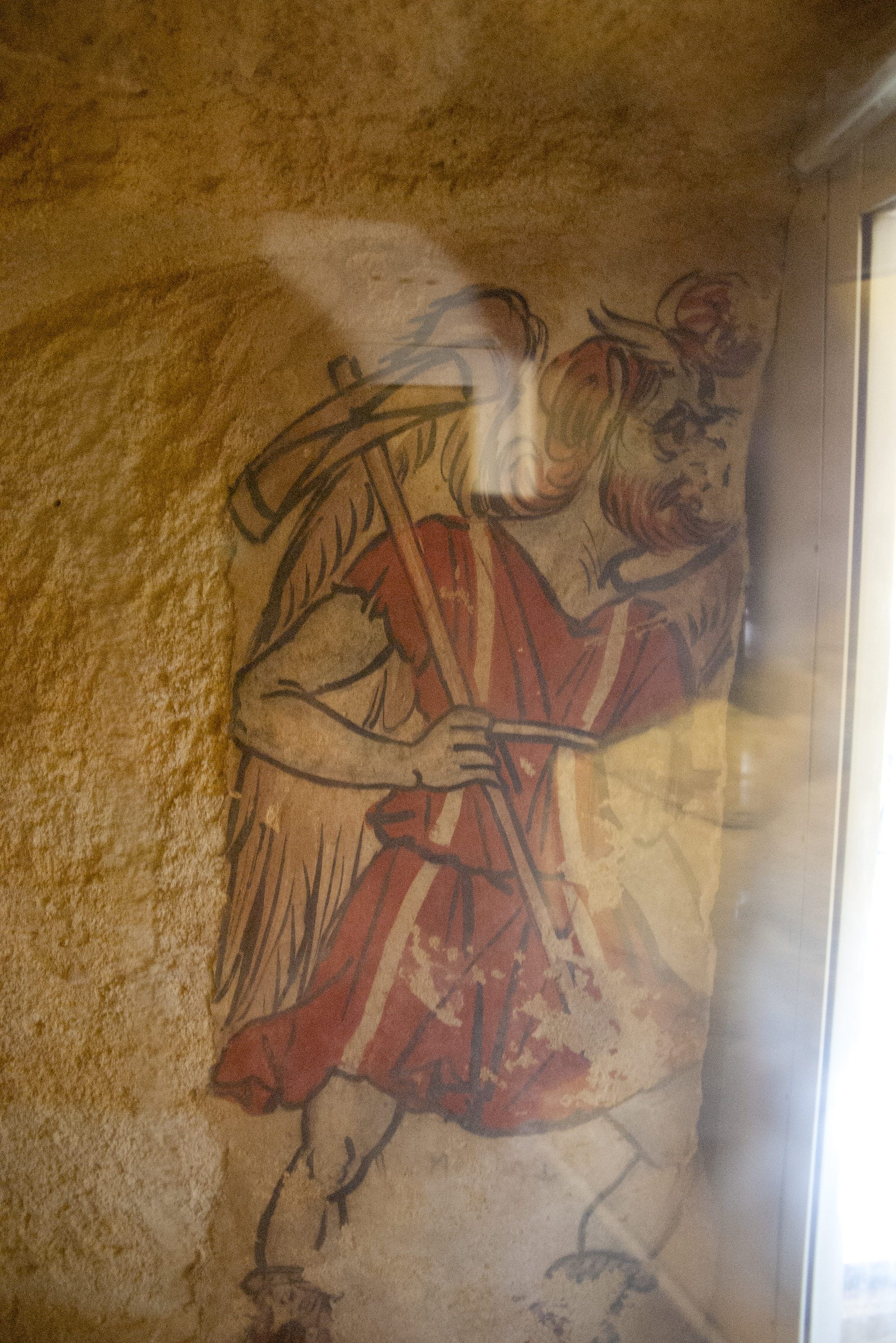 The Etruscan daemon Charun outside the Tomb of Anina, Montarozzi, Tarquinia.